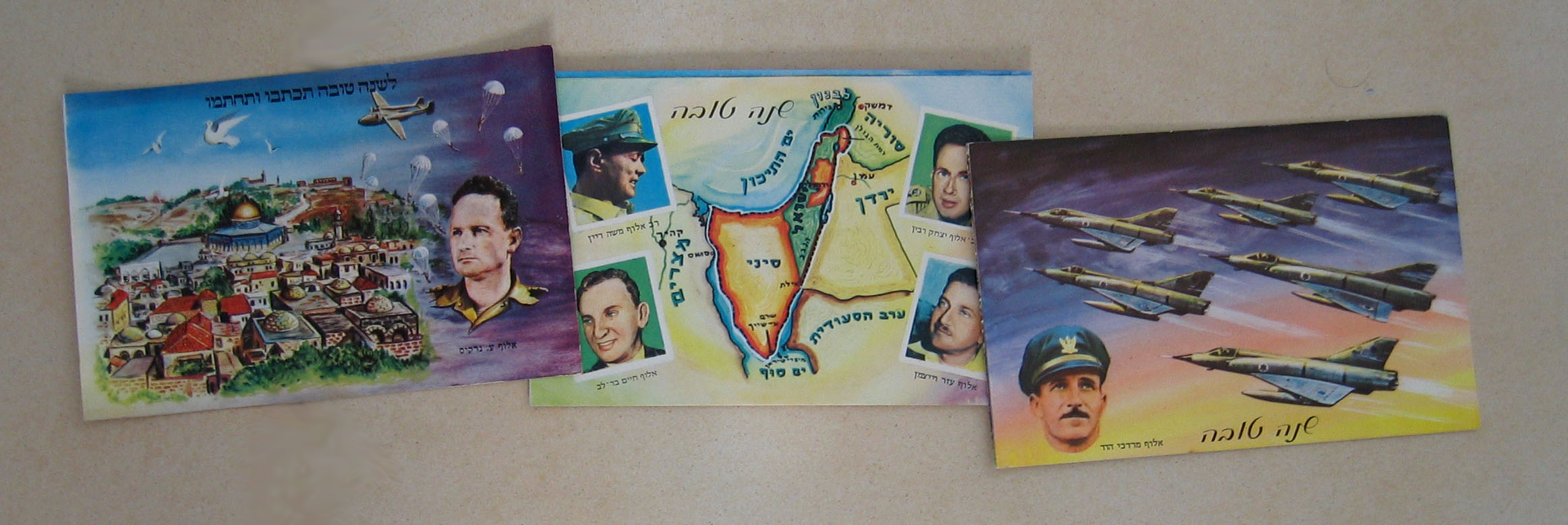 "Happy New Year" Postacards, Israel